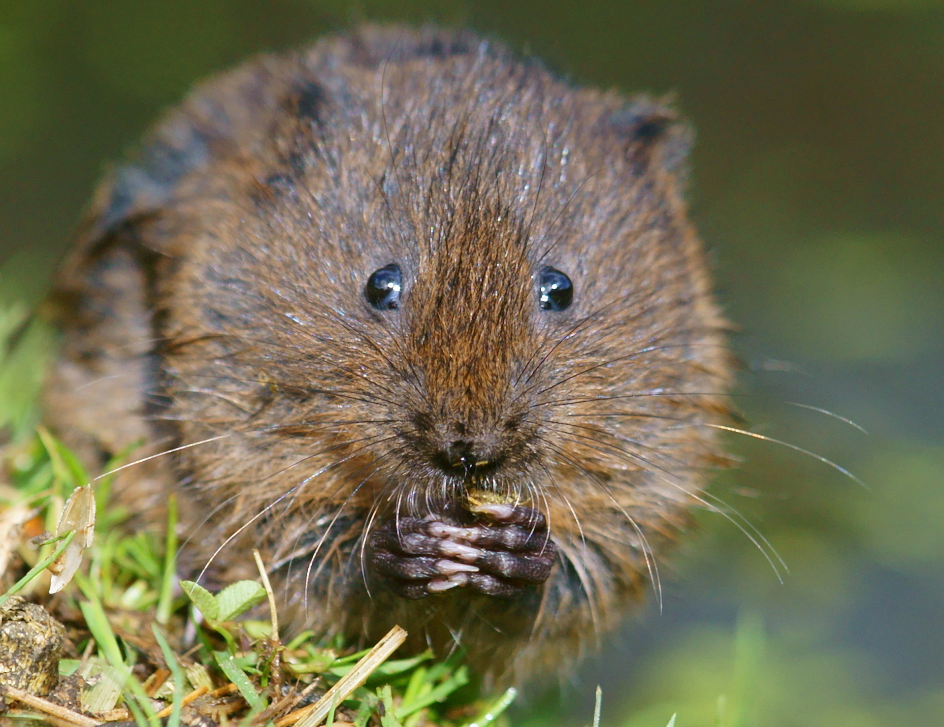 Seen at the British Wildlife Centre, doing what water voles do for much of the time.